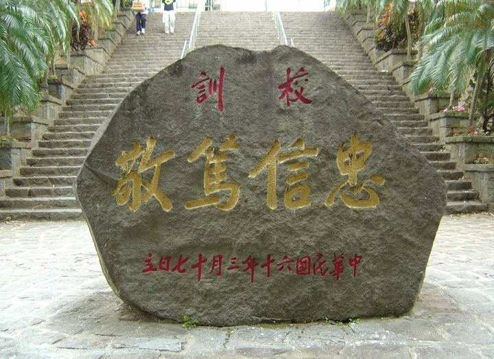 The motto stone of Kuang Wu Industry Junior College, located in Technology and Science Institute of Northern Taiwan.中文（台灣）: 臺北城市科技大學操場下的「忠信篤敬」校訓石。